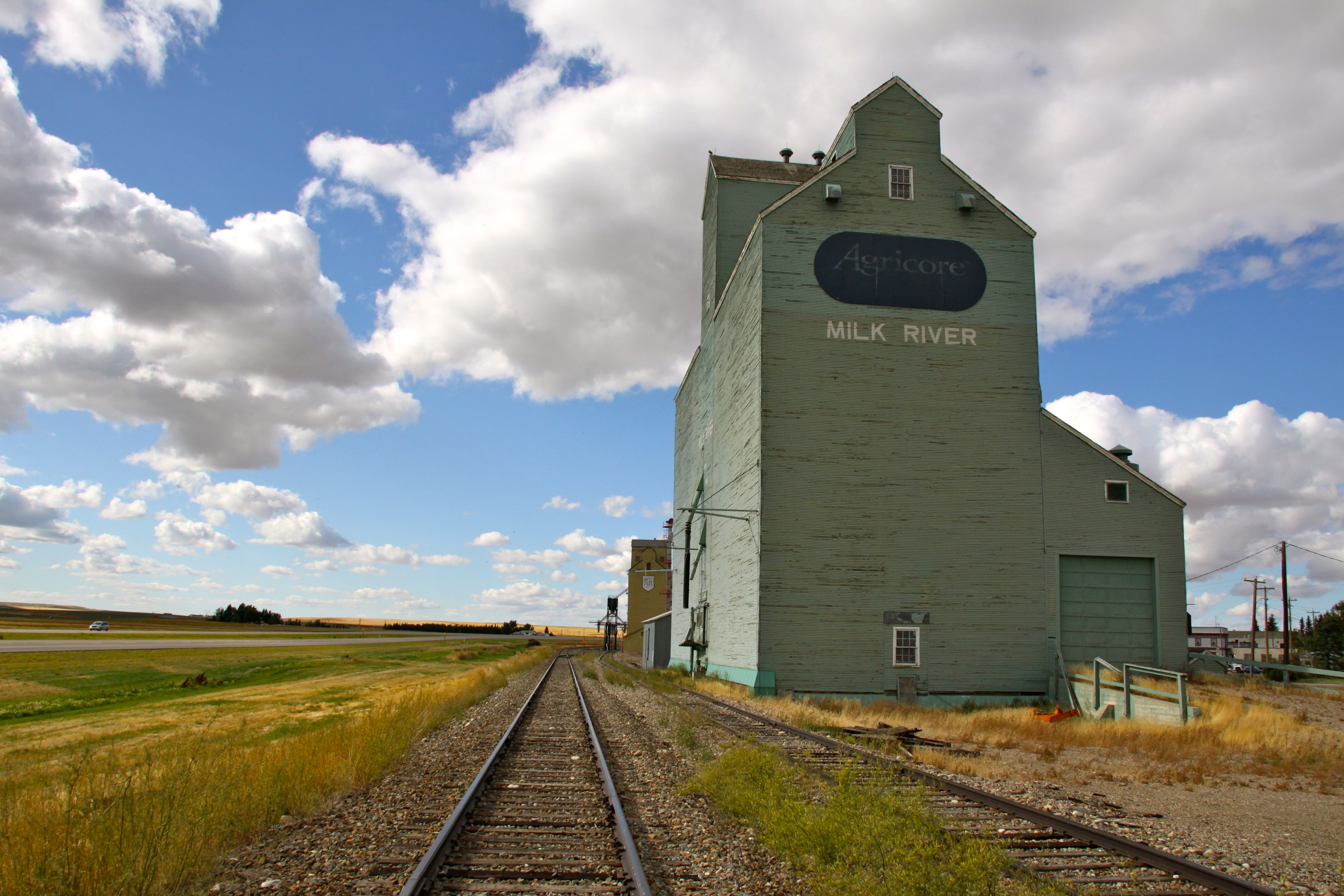 Grain elevator in Milk River